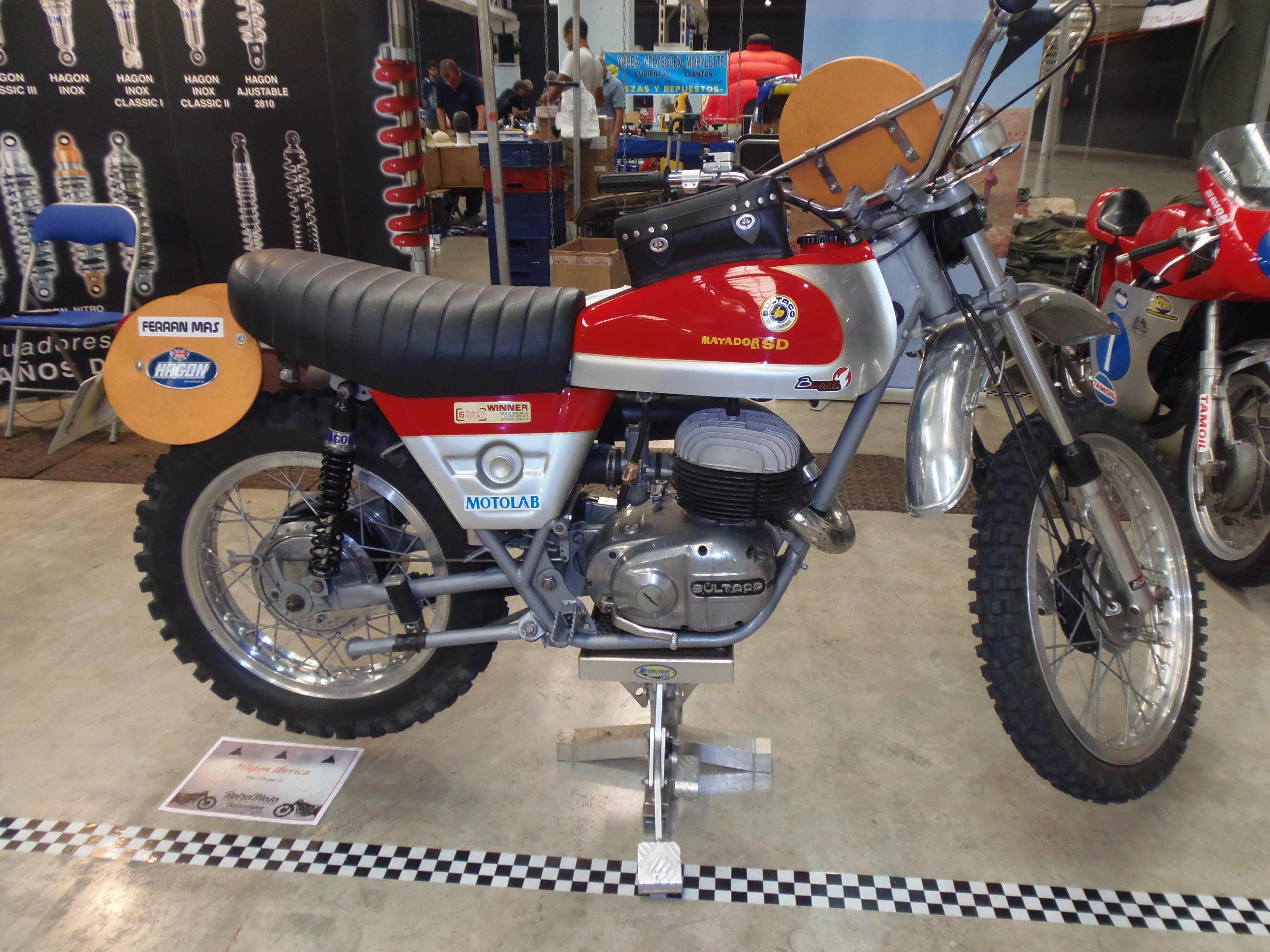 Bultaco Matador MK4 SD, 1972